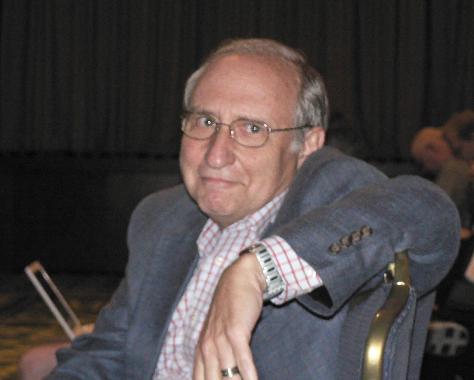 Ben Shneiderman at Social Computing 2009